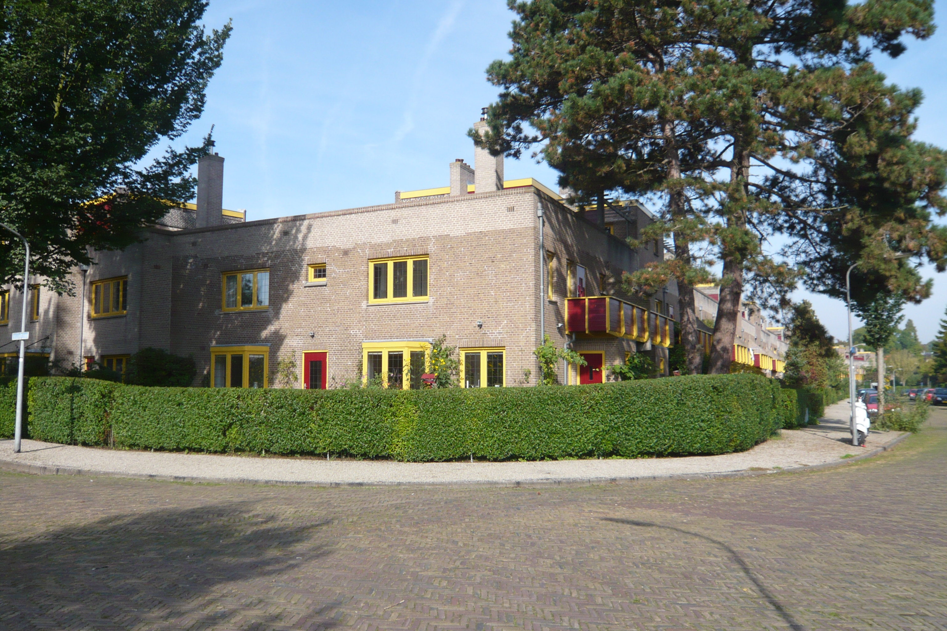 Tuinwijk, early 1920s suburban development by J. van Loghem (Han van Loghem), Haarlem. Seen from the corner of the Spaarnelaan and the Zonnelaan.